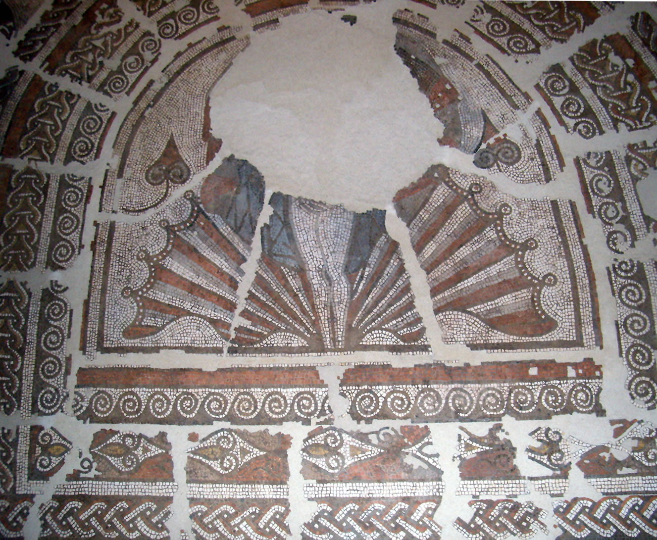 Mosaic from Roman villa at Hemsworth, now in the British Museum